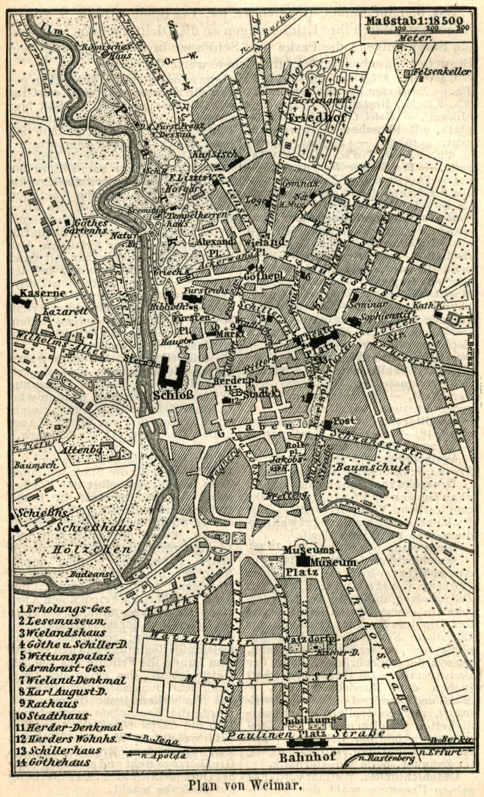 Map of Weimar 1894.